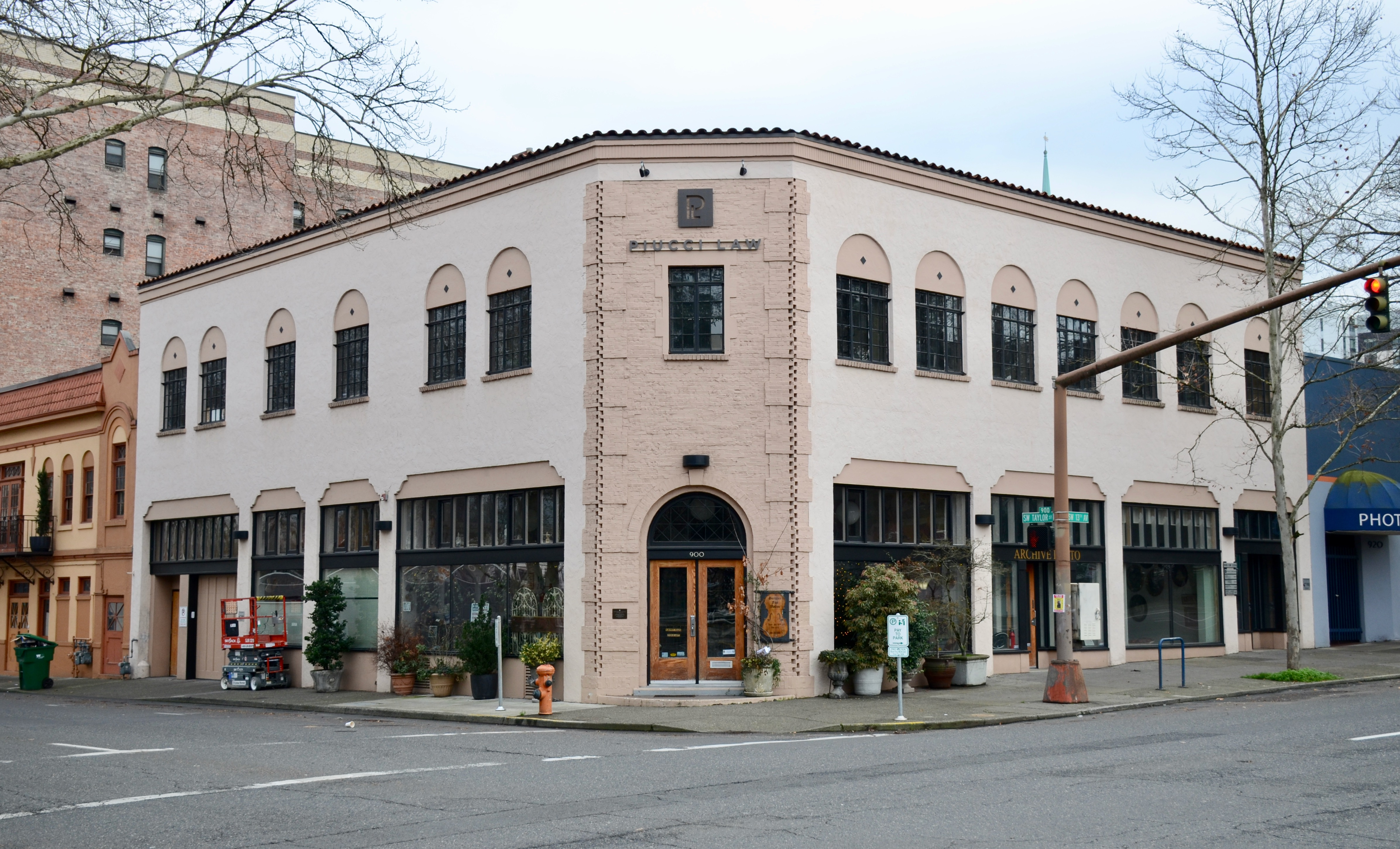 The historic Peck Bros. and Bartle Tire Service Company Building building, at SW 13th Avenue and Taylor Street in downtown Portland, Oregon, viewed from the northwest. Converted many years ago into an office building (currently used by a law firm), the 1927 building is listed on the U.S. National Register of Historic Places under its original name.